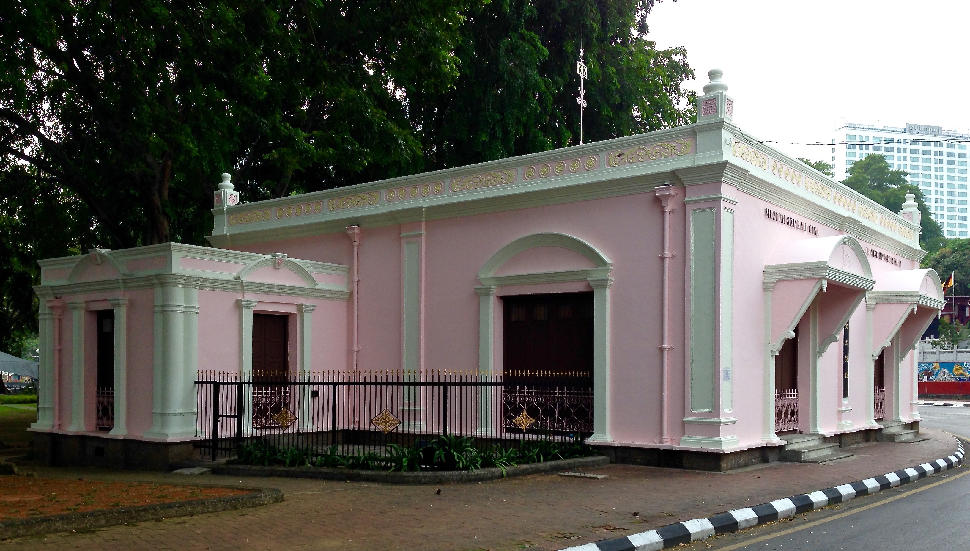 The Chinese History Museum viewed at an angle.